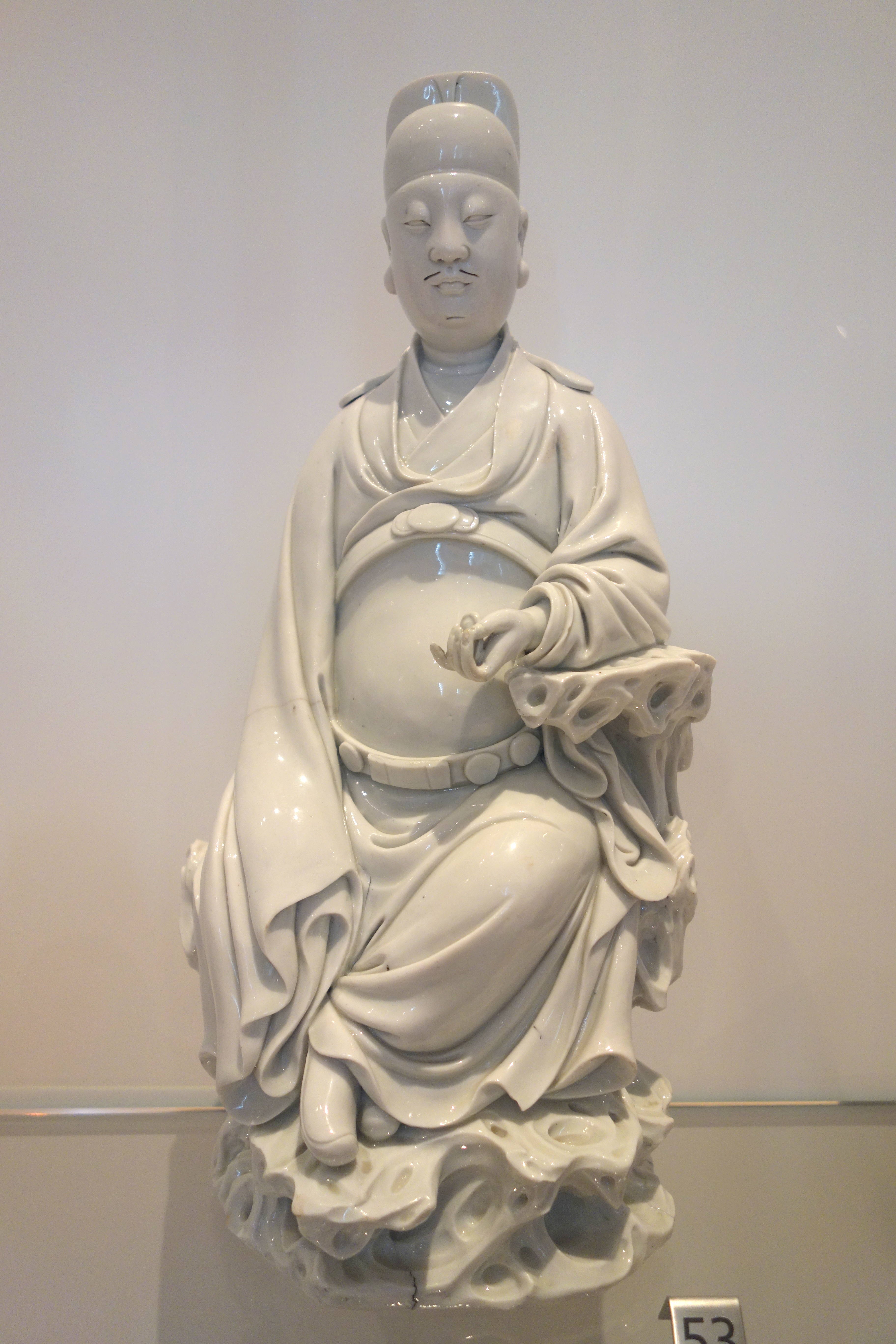 Exhibit in the Royal Ontario Museum, Toronto, Ontario, Canada. This work is old enough so that it is in the public domain.